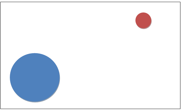 a microsoft drawing in Word showing the earth and the moon